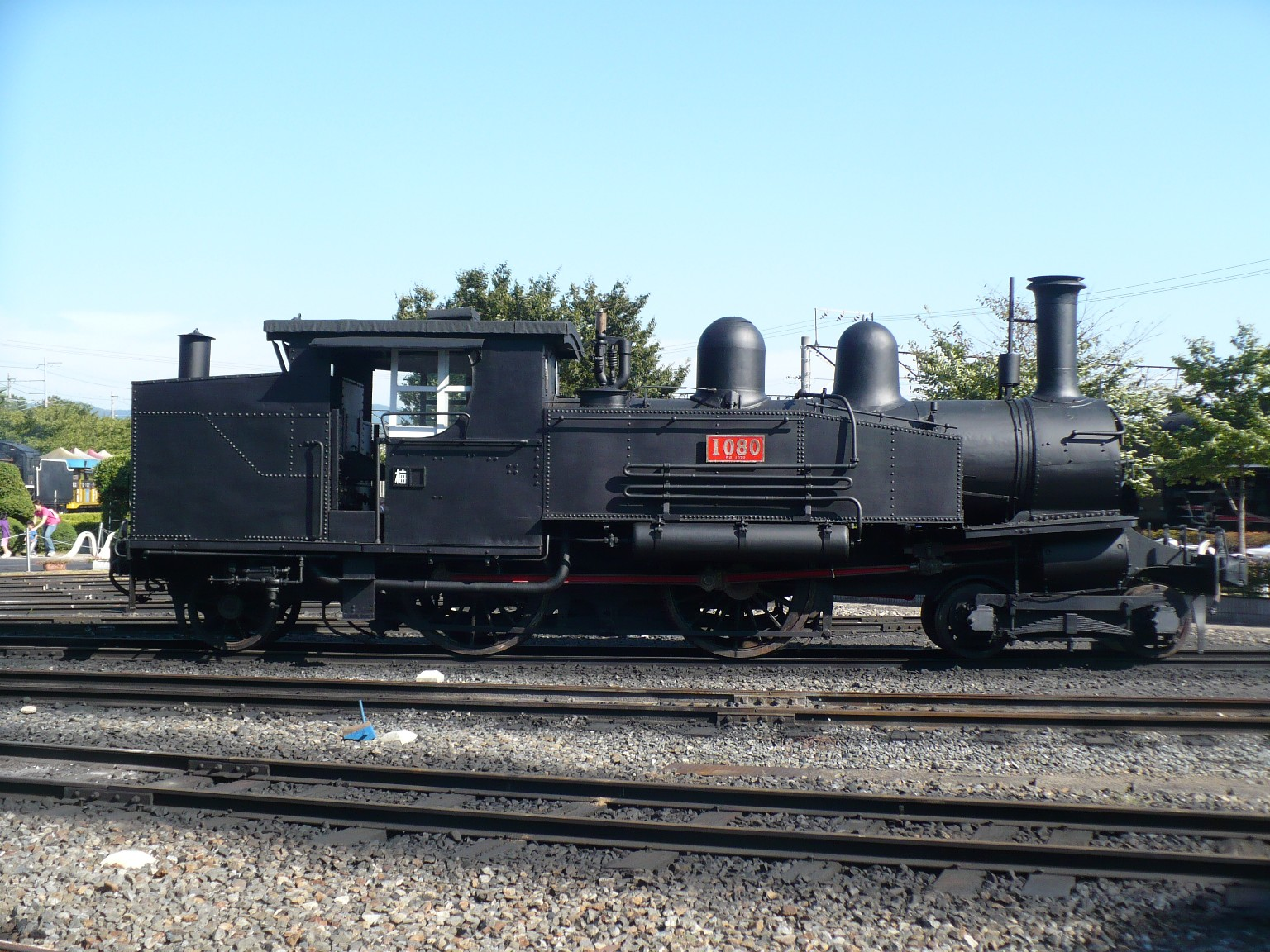 Japanese Governmental Railway type 1070 steam locomotive No.1080, preserved at Umekoji steam locomotive museum, Kyoto, Japan.